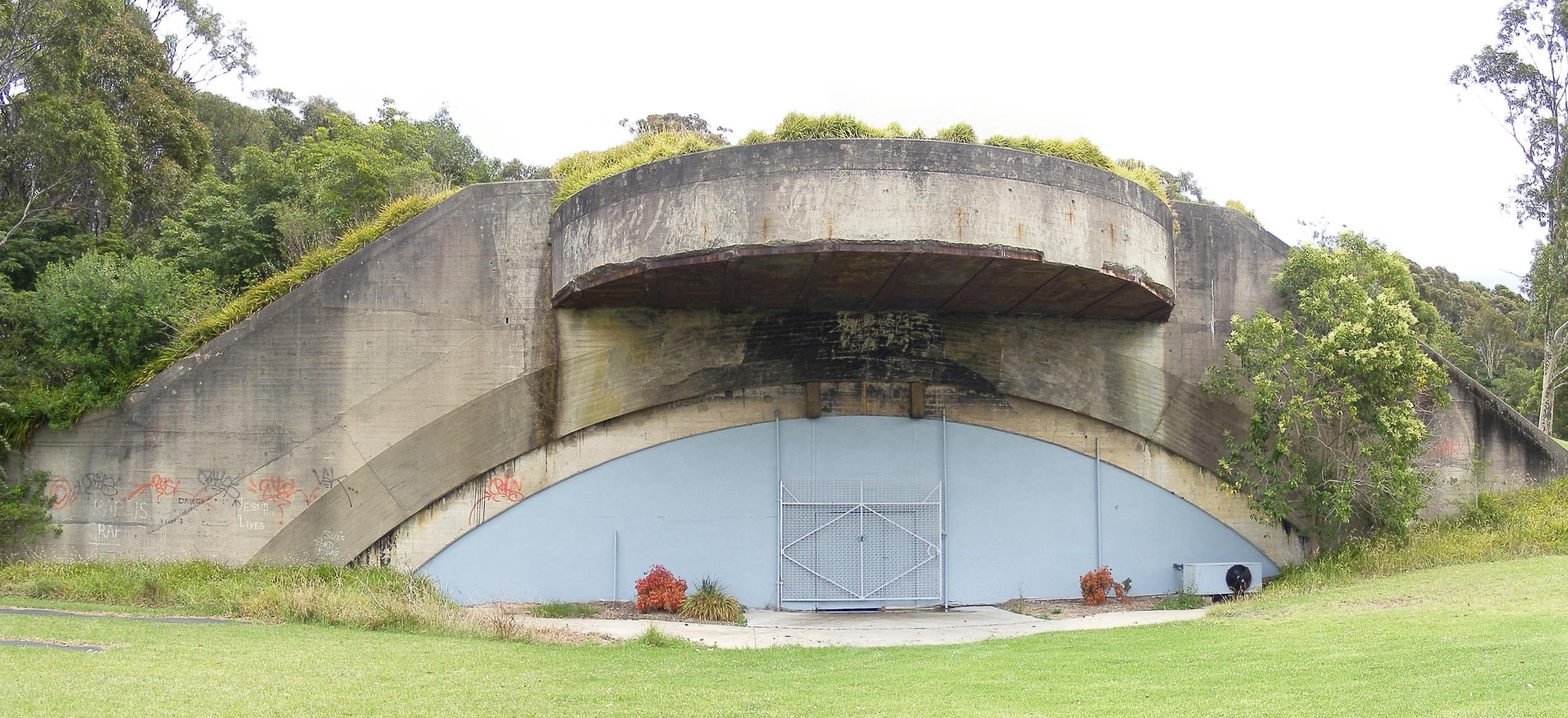 Port Kembla Drummond Battery Port Kembla, Position Two, part of the WWII Kembla Fortress defences. See File:Drummond Bty (AWM 081440).jpg for how it appeared in 1944 when it mounted a 9.2 inch gun.